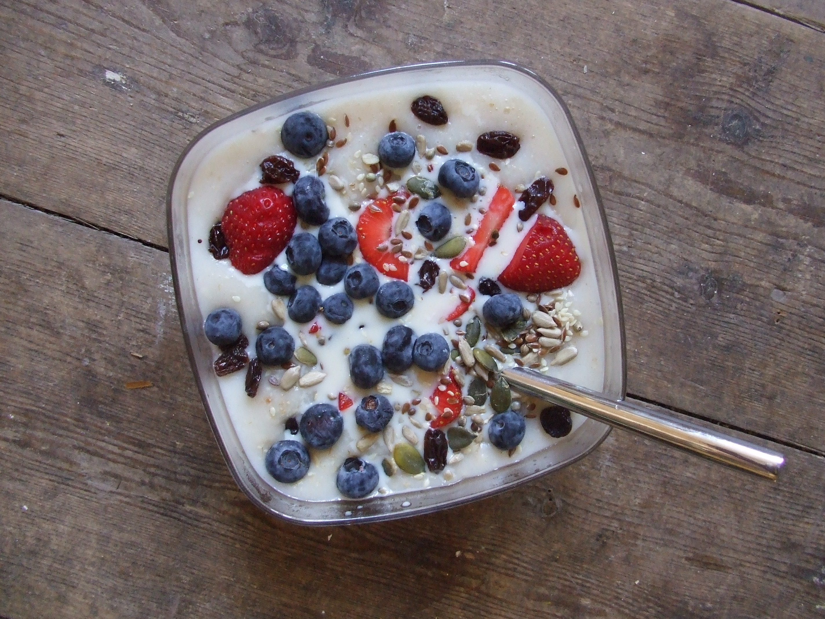 Breakfast porridge: rolled oats cooked with water and soy milk, strawberries, blueberries, nuts, seeds.